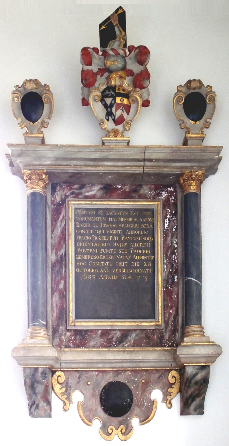 Mural monument in Dunchideock Church, Devon, to Aaron Baker (1620–1683) of Bowhay in the parish of Exminster (near Dunchideock), Devon, an officer of the Honourable East India Company, who served as the first President of the Madras Presidency (1652-1655). He was also at some time President of Bantam. Latin inscription: Positum et sacratum est hoc monumentum piae memoriae Aaronis Baker de Bowhay Armigeri infra conditi qui viginti annorum spacio praeses fuit Bantum Indiis Orientalibus. Huius aedificii partem sum(p)tu suo proprio generoso erexit. Natus Alphinton hoc comitatu; obiit die 28 Octobris An(n)o Verbi Incarnati 1683 aetatis suae 73 ("This monument is placed and sacred to the pious memory of Aaron Baker of Bowhay, Esquire, embalmed below, who during the space of twenty years was President of Bantum in the East Indies. He erected at his own noble expense part of this building. He was born in Alphington in this county; he died on the 28 day of October in the year of the Word made Incarnate 1683, of his age 73"). Above are shown the arms of Baker: Argent, on a saltire engrailed sable five escallops of the first on a chief of the second a lion passant of the first; impaling the arms of his two wives: in chief: Or, a fess between three Catherine wheels sable; in base: Gules, on a chevron argent a lion rampant sable. Above is the crest of Baker: A man's dexter arm embowed argent garnished or grasping in the hand an arrow point downward of the last